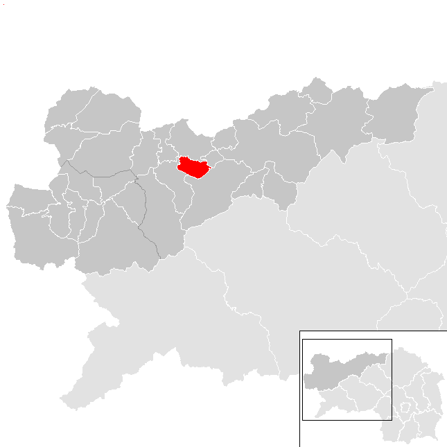 District Leoben